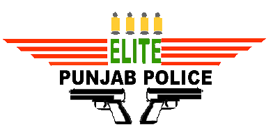 Logo of Elite Force